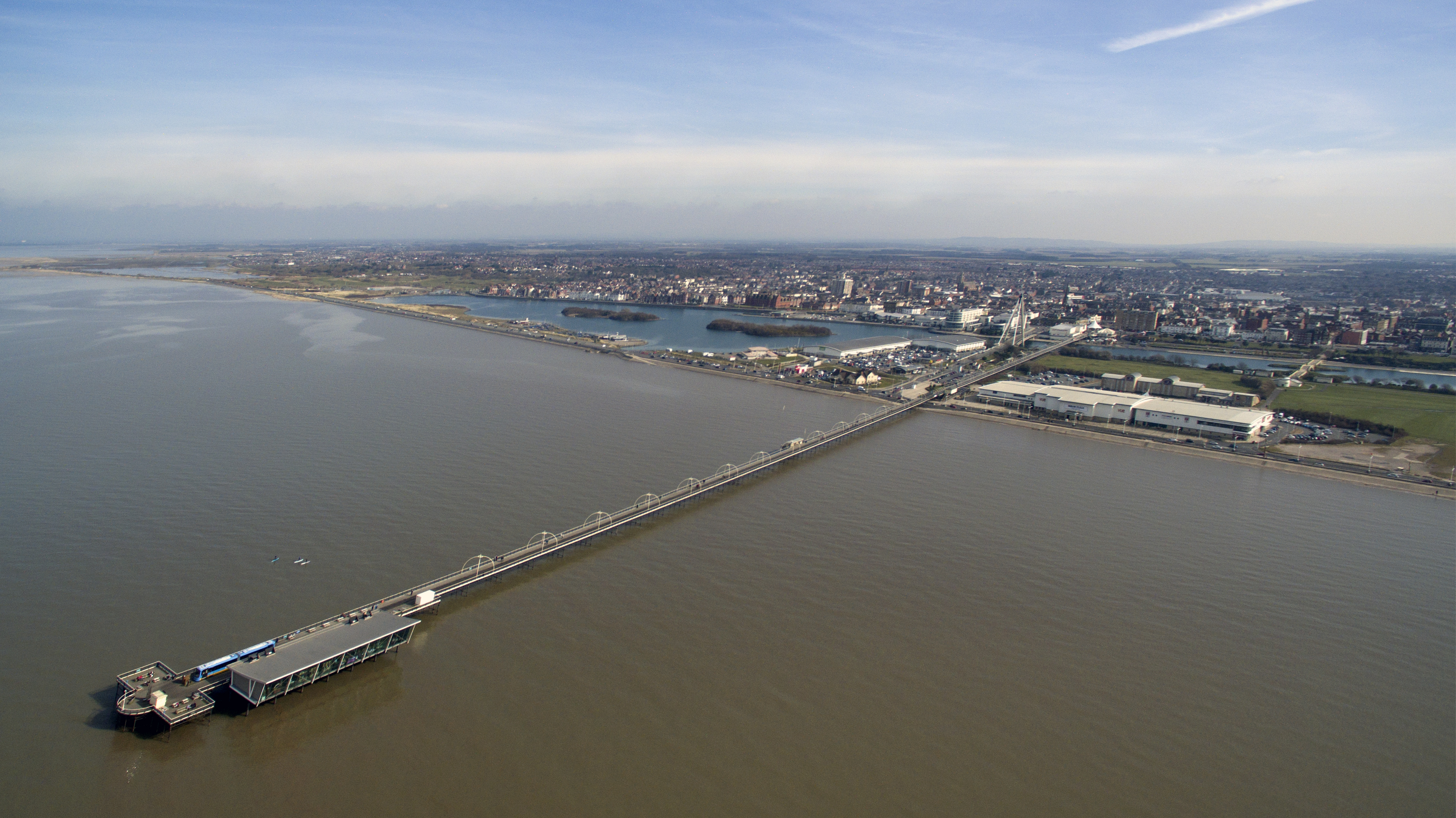 Taken by Martin Maynard on the highest tide of the year. This would be taken just a few days before the Tram was removed.